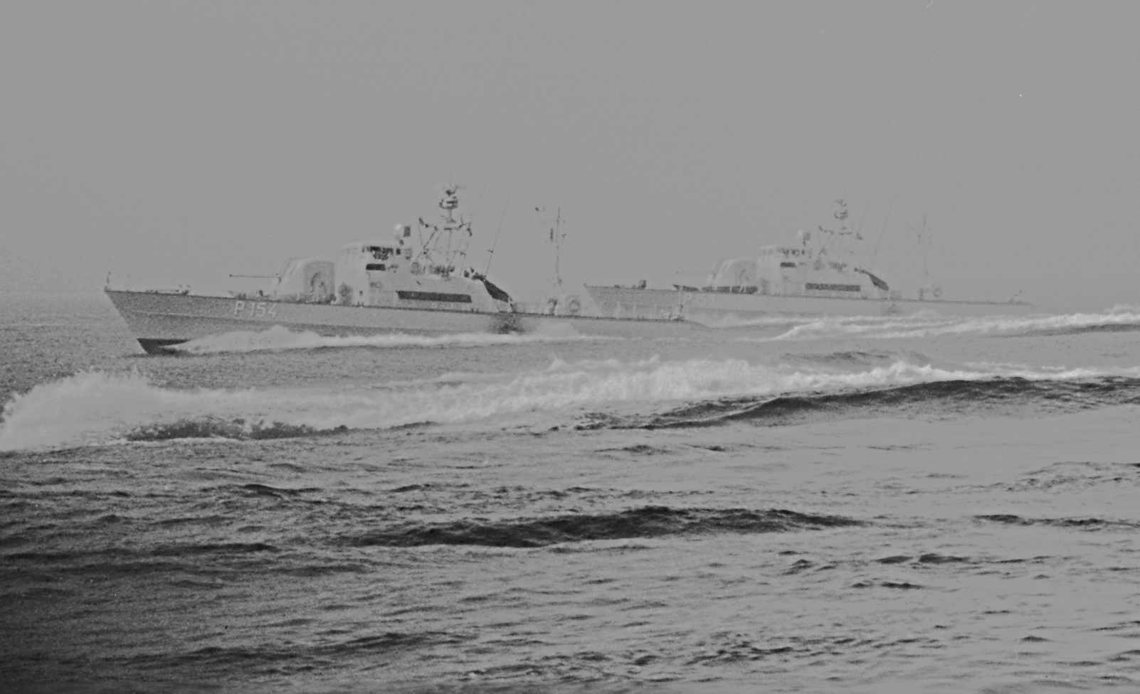 The Swedish Fast Patrol Boat HMS Mode (P154) together with the sister ship HMS Magne (P153)during an exercise the summer 1980.